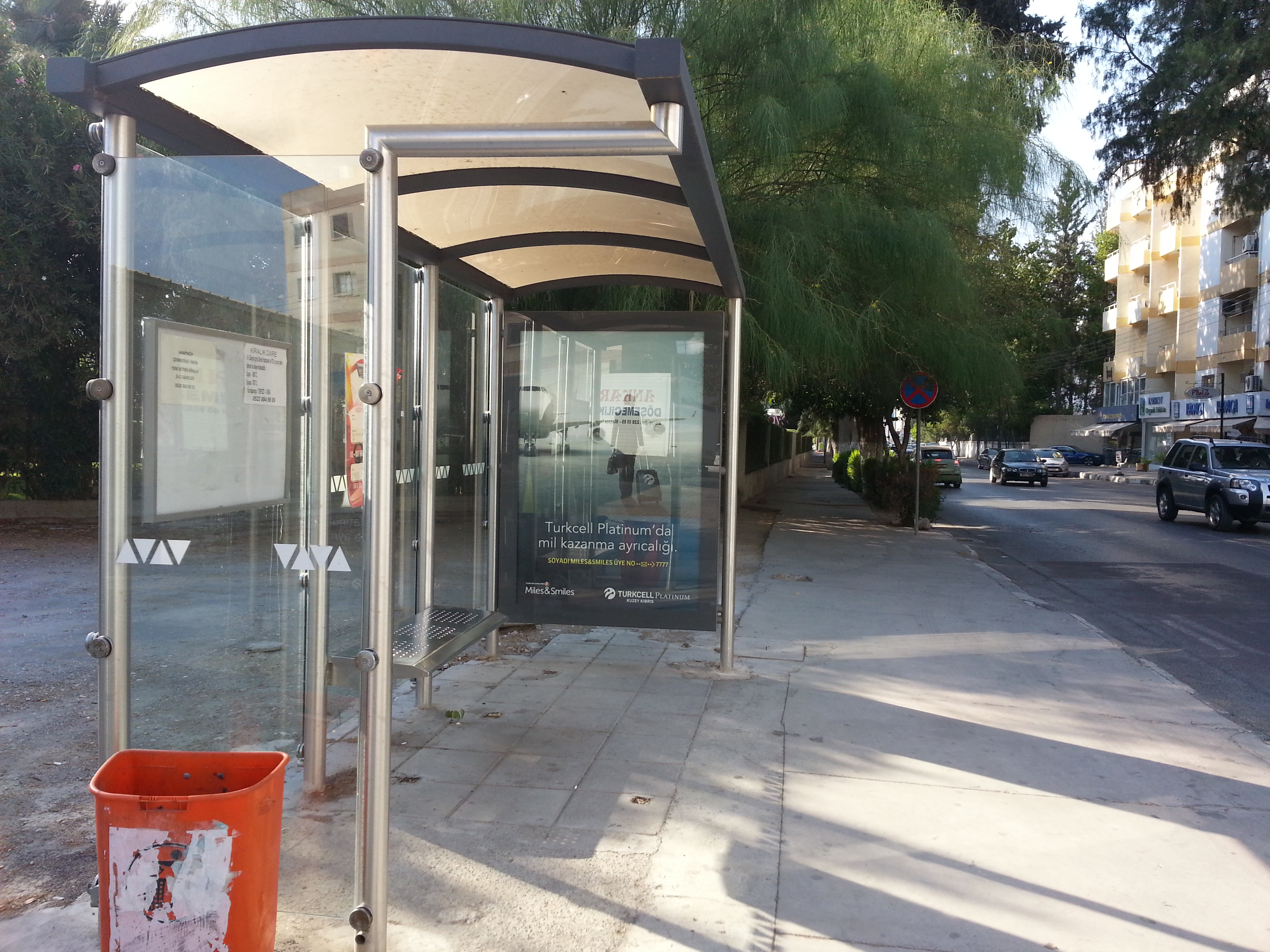 A bus stop in Bedrettin Demirel Avenue in North Nicosia, where both public and private buses frequently stop